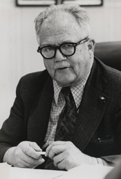 Andrew Biemiller, U.S. Representative from Wisconsin